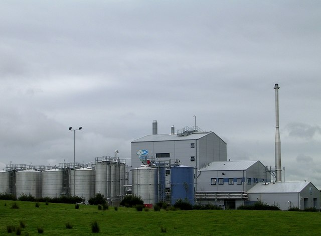 Argent Energy Biodiesel Plant. Argent Energy operates the UK's first large-scale biodiesel plant. This plant produced its first batch of biodiesel in March 2005 and is now capable of producing nearly 50 million litres of biodiesel per year.